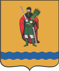 Ryazan rayon (Ryazan oblast), coat of arms